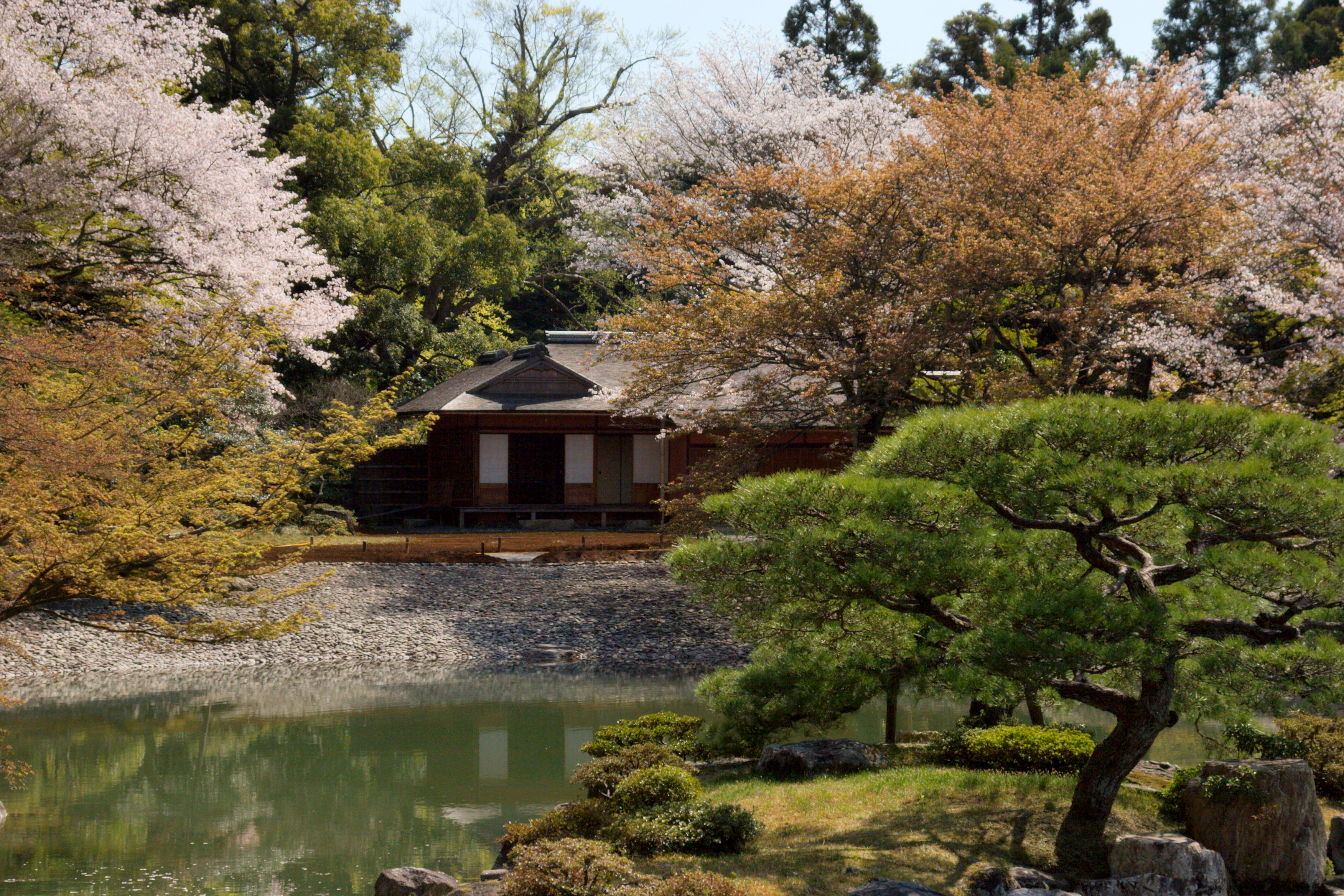 Sento Gosho